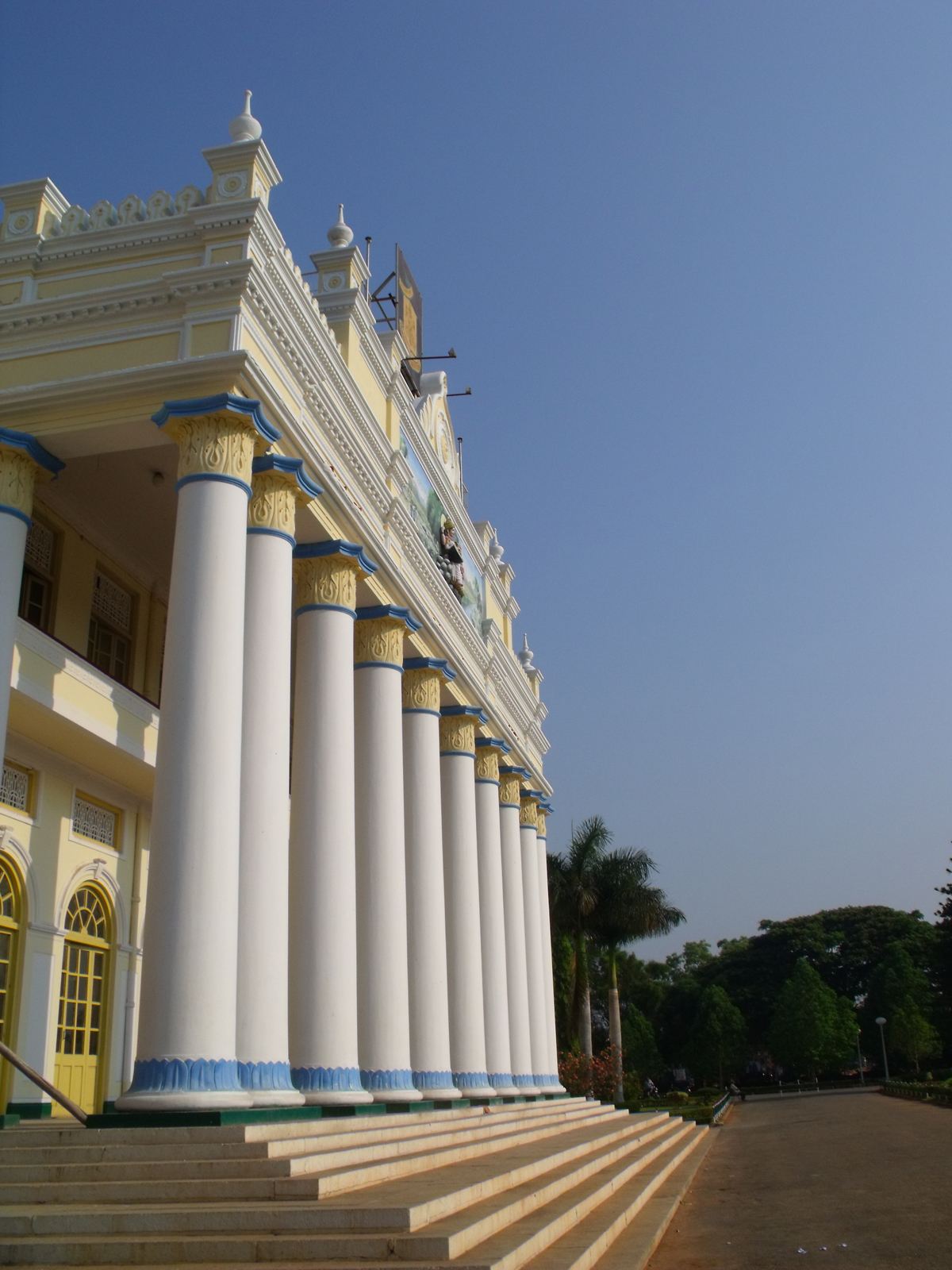 Administrative offices of the University of Mysore